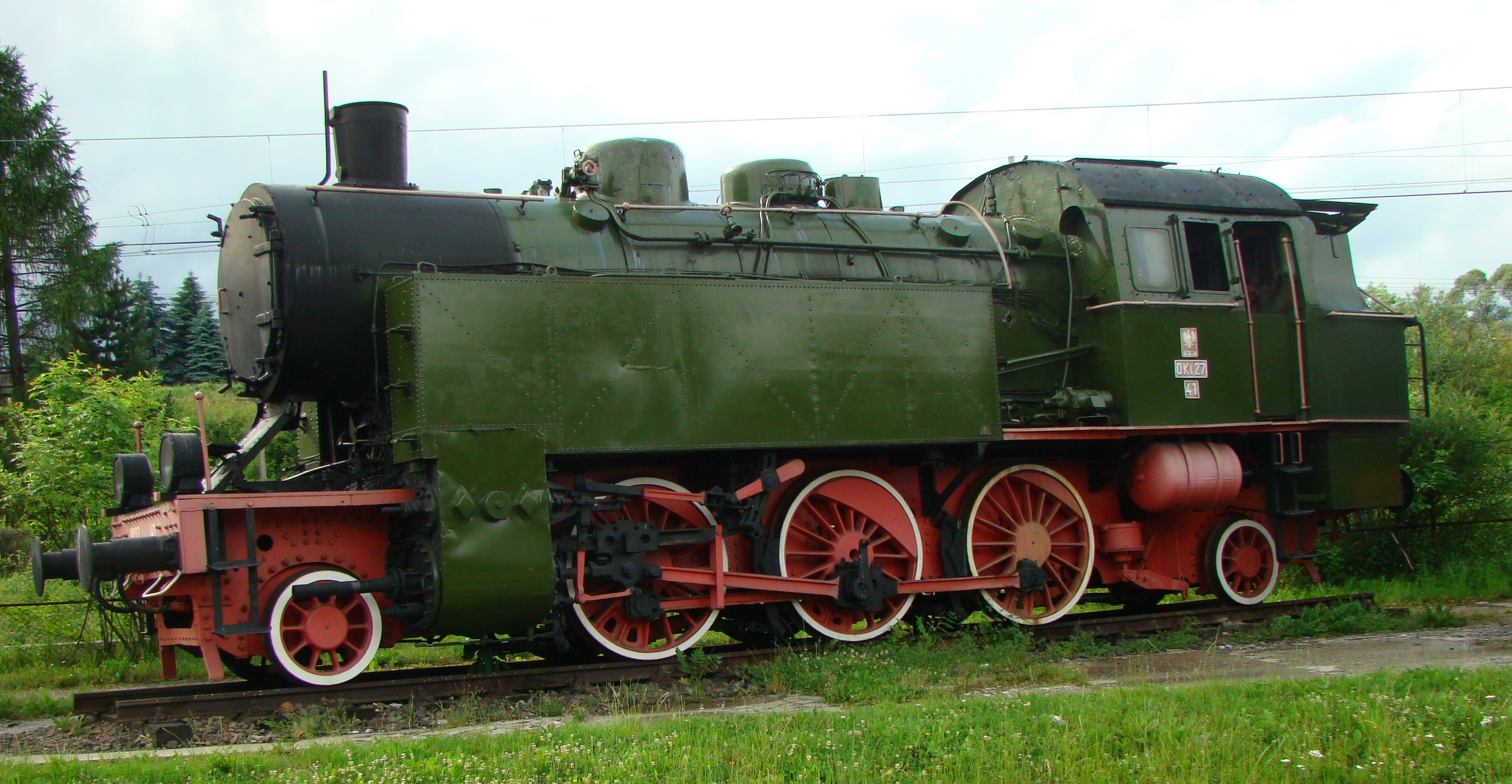 Tank locomotive OKl27-41 at Chabówka Railway Museum, Poland